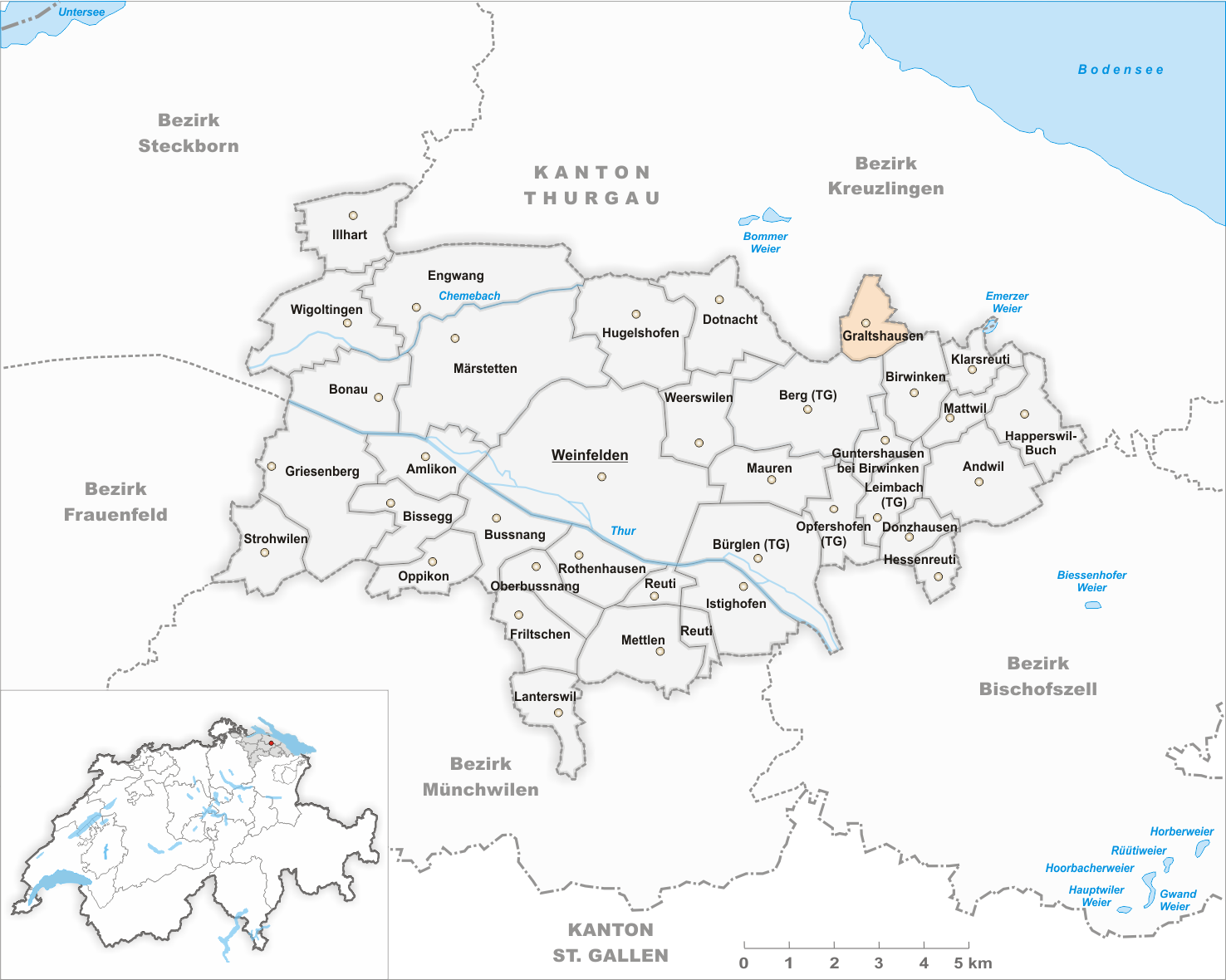 Municipality Graltshausen